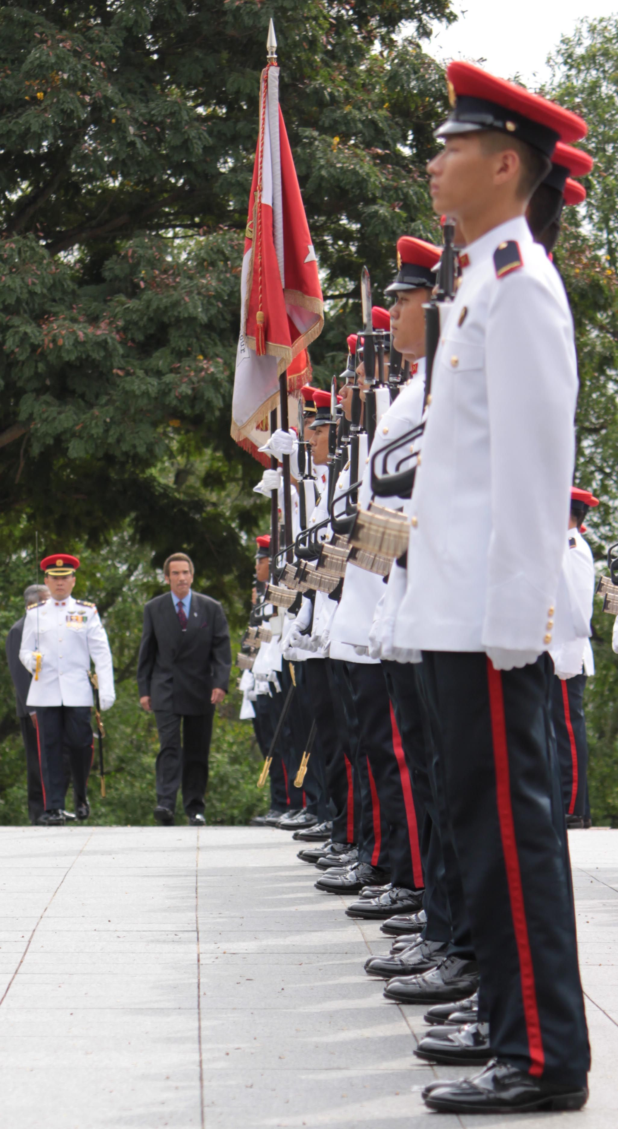 SAF Military Police Command is involved in ceremonial activities such as Guard of Honor parades held for foreign dignitaries, as seen here. The diginitary in the picture was the President of the Republic of Botswana, Ian Khama